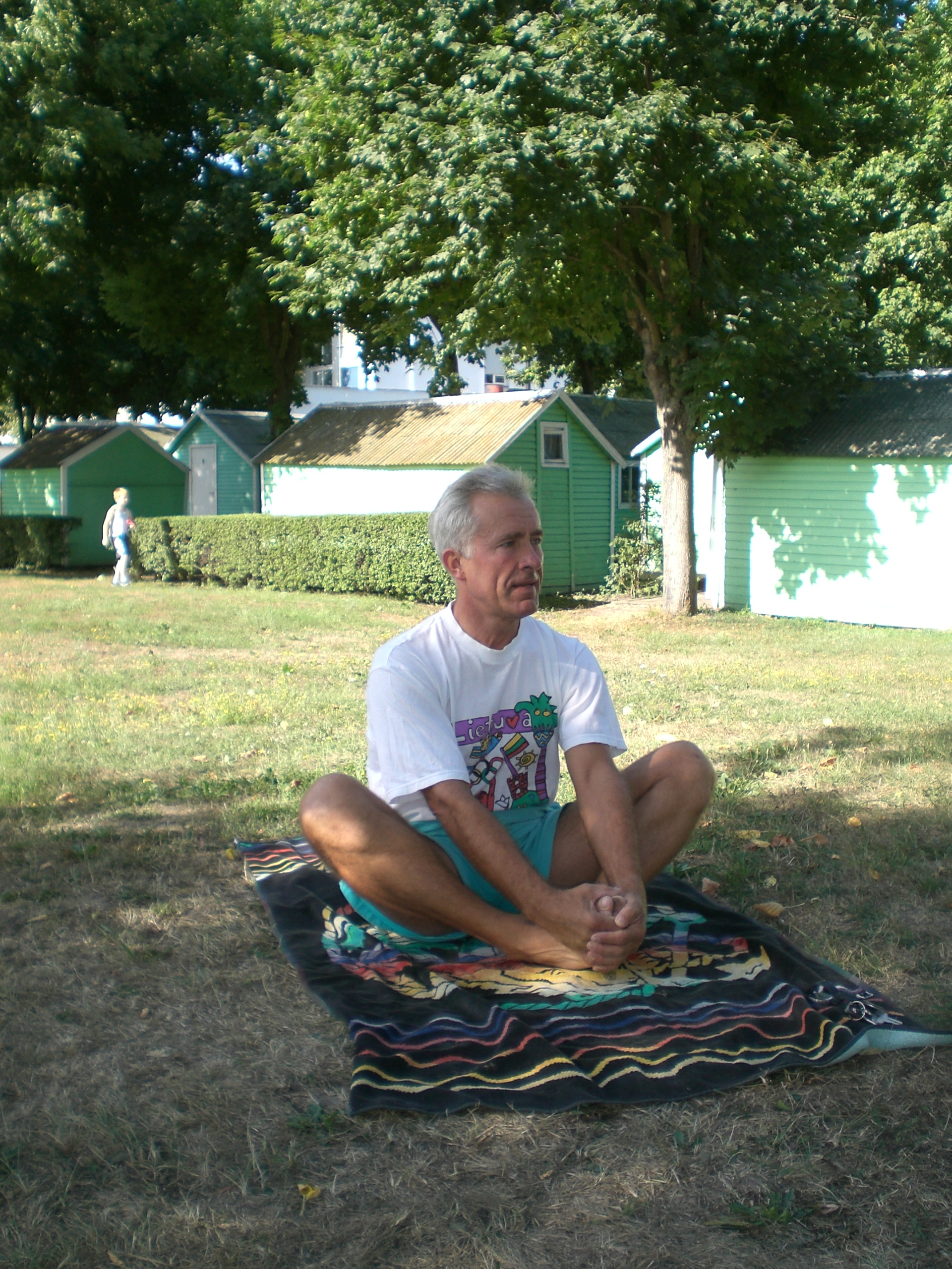 the health coach Dainius Kepenis, broadly known in Lithuania, in august 2006